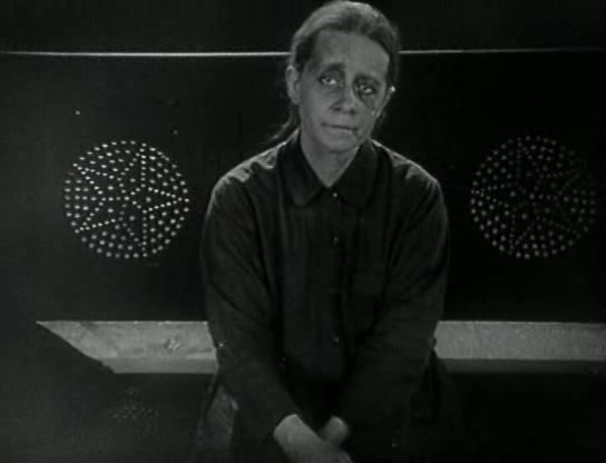 Vera Baranovskaya in Mat